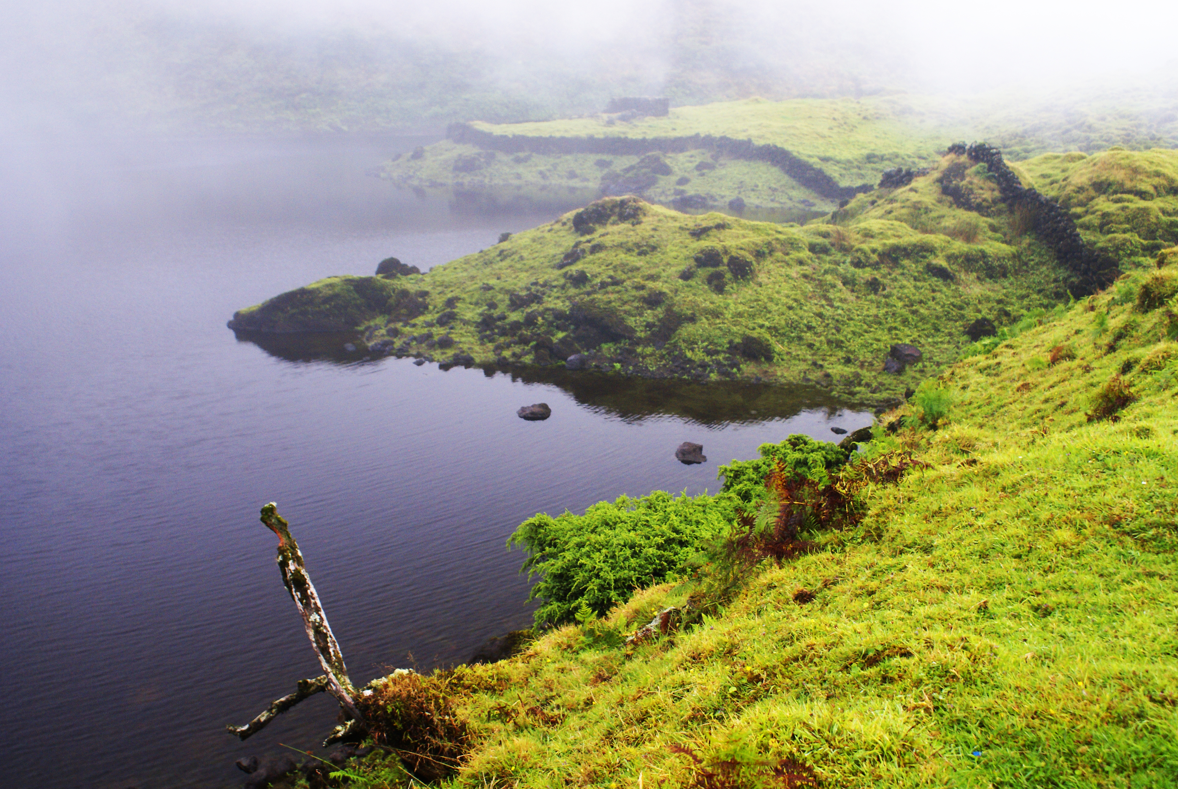 Lagoa do Paul, surrounding margin, municipality of Lajes do Pico, island of Pico, Azores (Portugal)